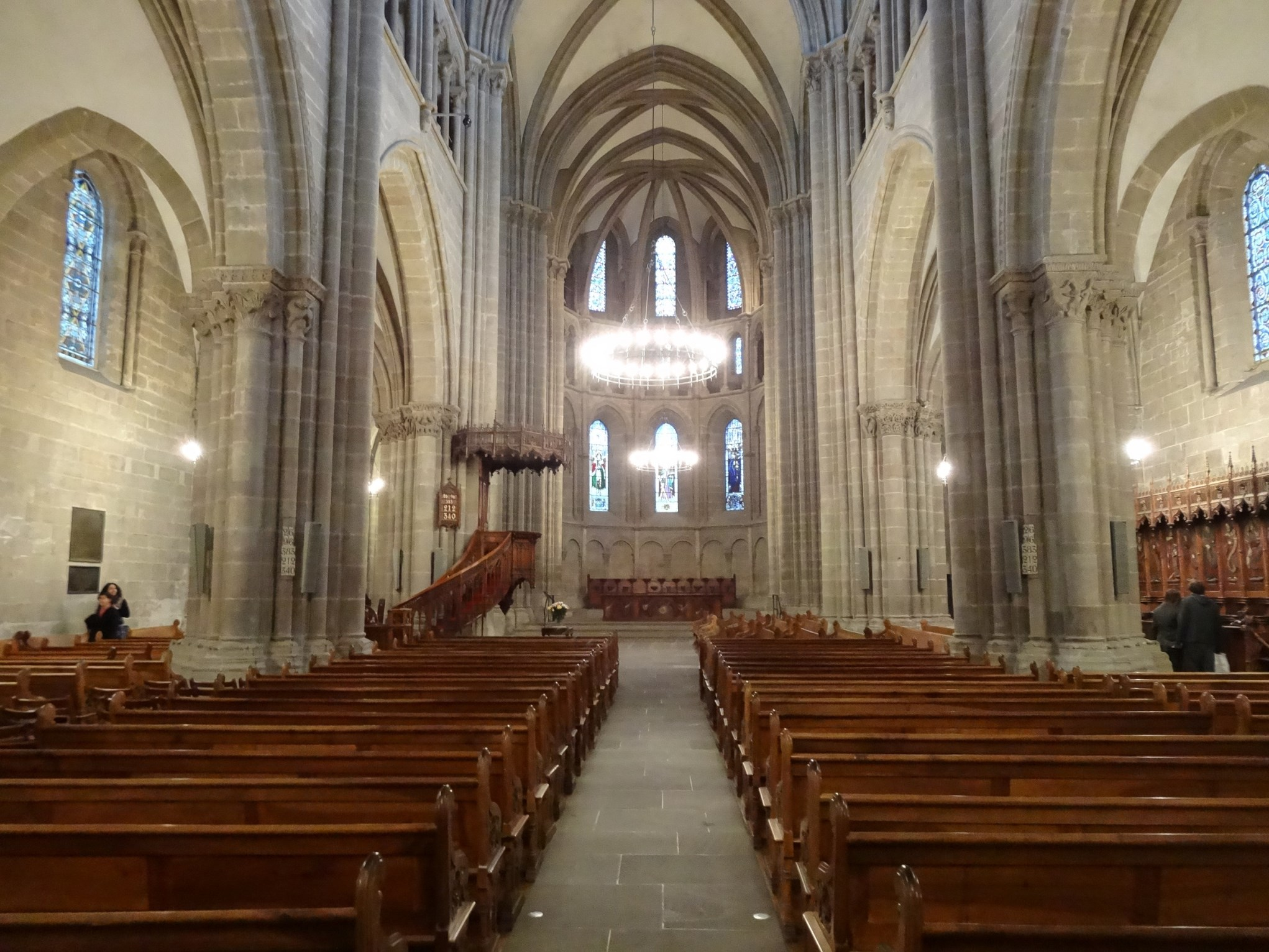 Geneva